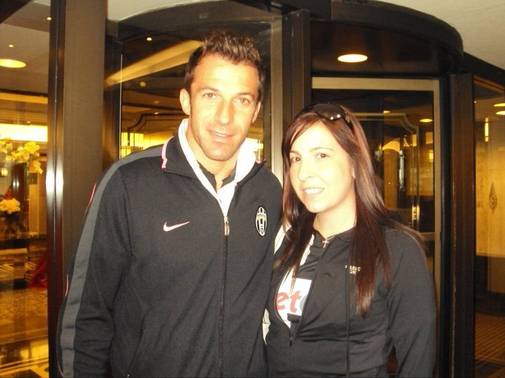 Alessandro Del Piero in Toronto (July 2011) for a friendly against Sporting at Toronto's BMO Stadium.